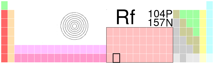 Rutherfordium shown on the periodic table